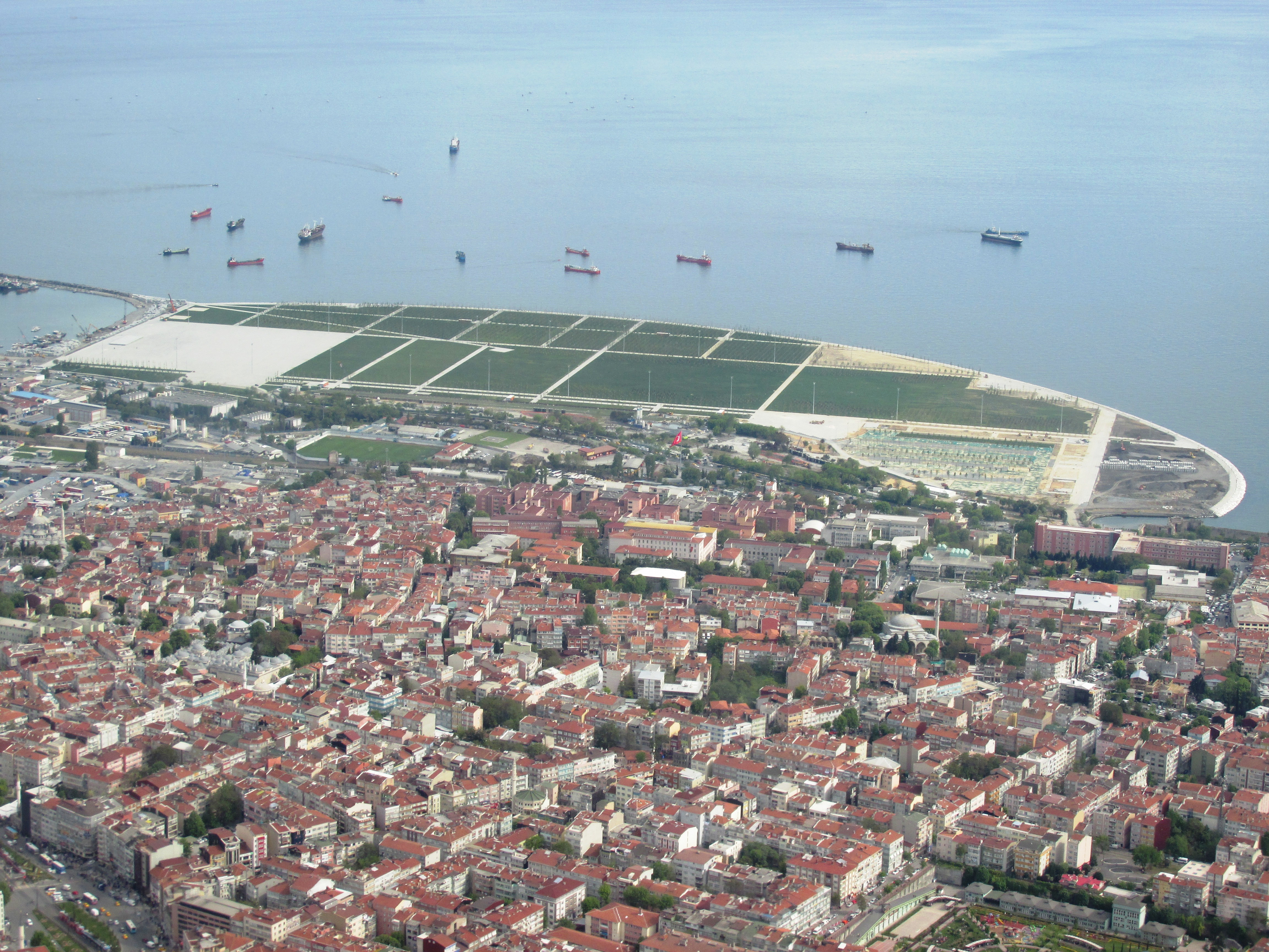 Harbour of Eleutherios located beneath the modern Yenikapi neighborhood of Istanbul. "In November 2005, workers on the Bosphorus Tunnel Project discovered the silted-up remains of the harbour. Excavations produced evidence of the 4th-century Port of Theodosius. There, archaeologists uncovered traces of the city wall of Constantine the Great, and the remains of over 35 Byzantine ships from the 7th to 10th centuries, ..." Istanbul Turkey